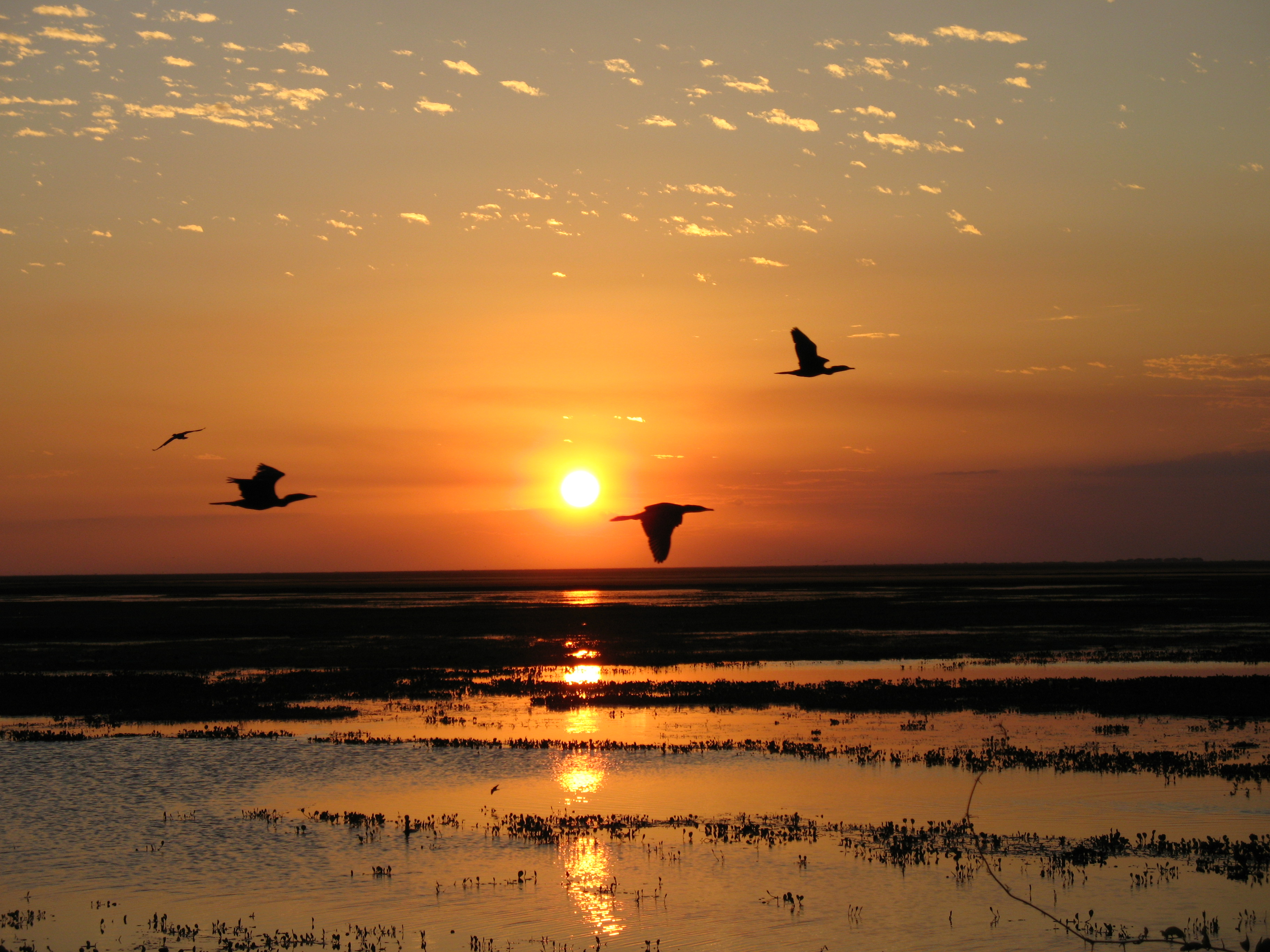 Sunset in Llanos, Venezuela.